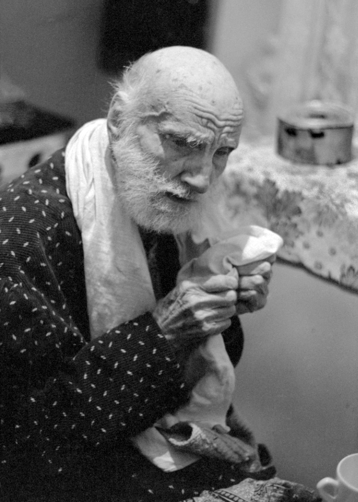 Vasily Shulgin